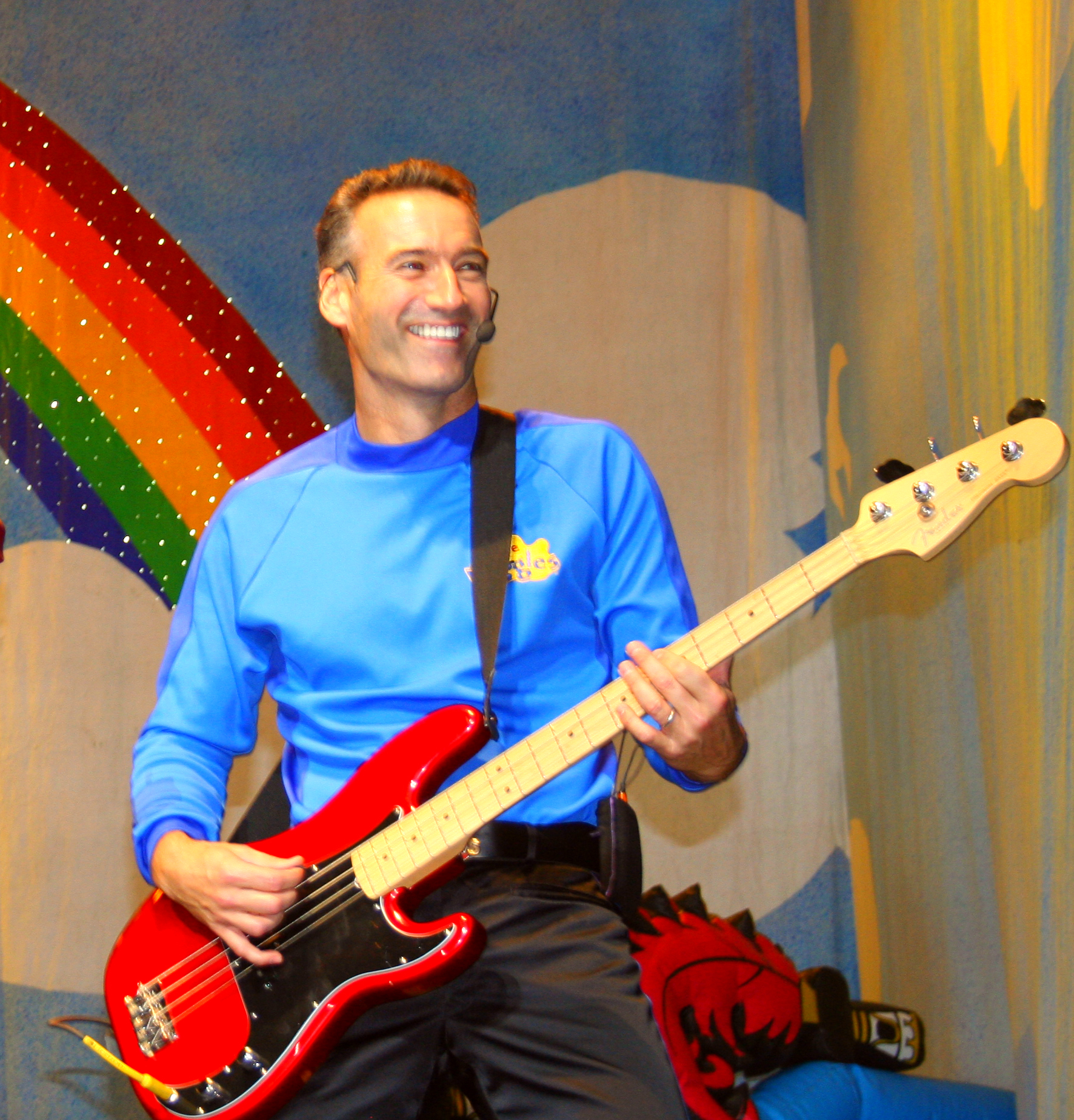 Anthony Field of kids music group The Wiggles, performs at the MCI Center (now Verizon Centre) in Washington, D.C. on November 8, 2007.